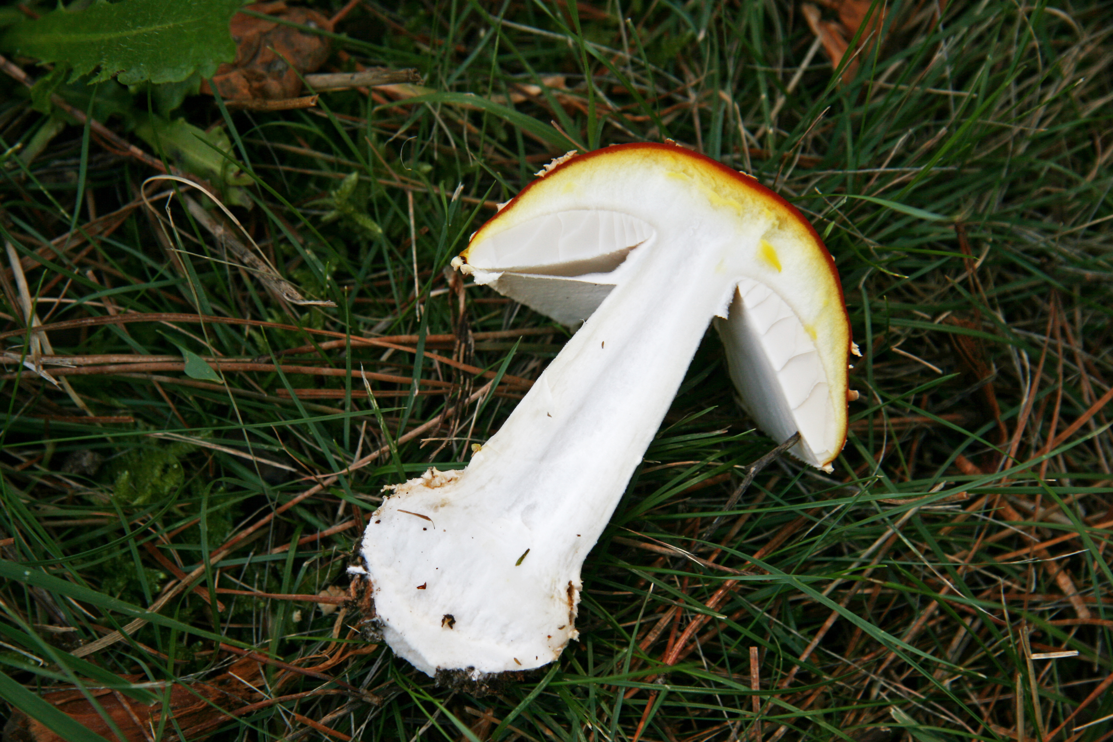 Cross section of Amanita muscaria fruiting body, Wentworth Falls, NSW